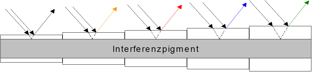 Influence of film thickness of interference pigments